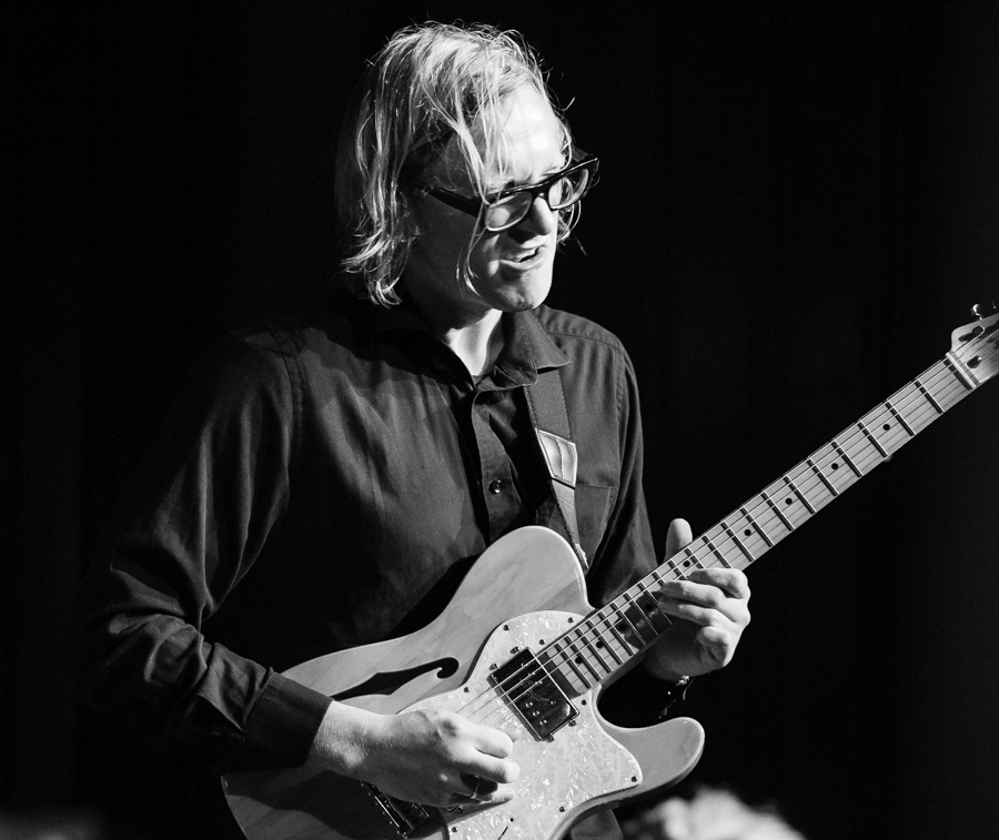 Tom Hasslan in a concert with Krokofant at Privat Bar. The concert was part of Kongsberg Jazzfestival and took place on 03. July 2019 in Kongsberg. Lineup:Tom Hasslan (guitar)Axel Skalstad (drums)Jørgen Mathisen (saxophone)Ståle Storløkken (organ)Ingebrigt Håker Flaten (bass guitar)